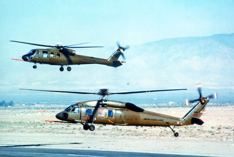 A Sikorsky YUH-60A (in front) and Boeing Vertol YUH-61A (rearwards) hover for the camera.